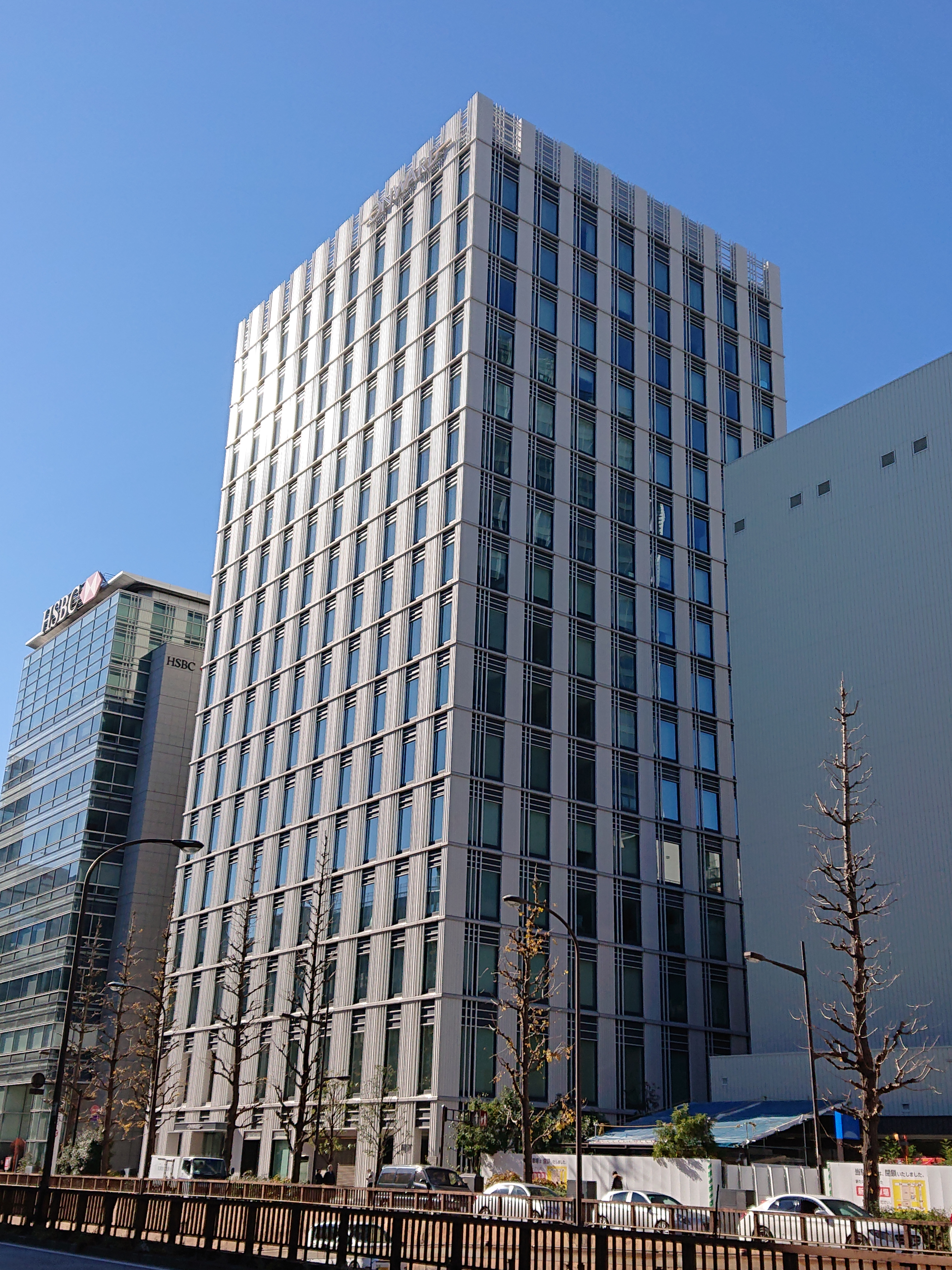 Onward Park Building, located at 3-10-5 Nihonbashi, Chuo, Tokyo, Japan